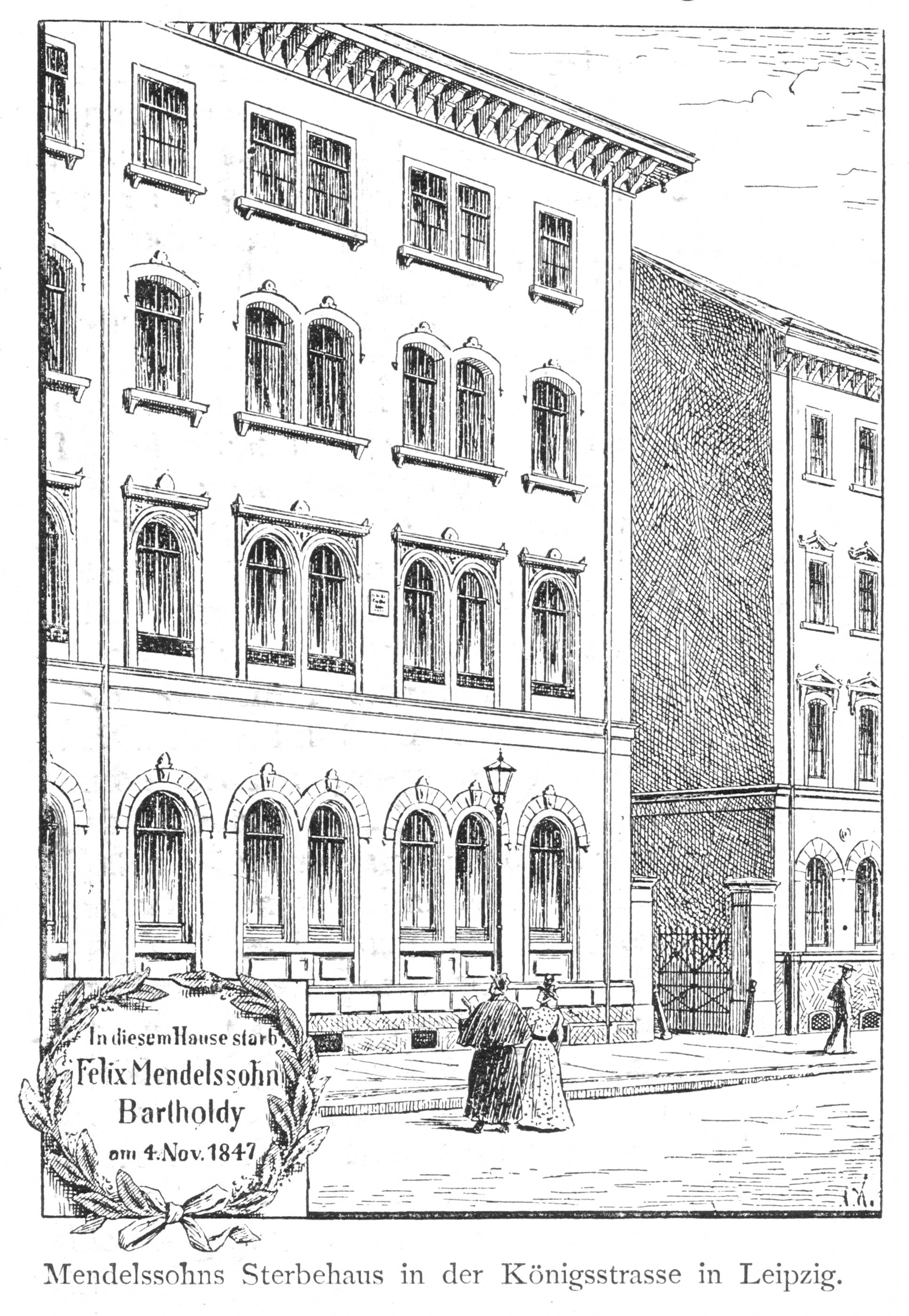 Felix Mendelssohn Bartholdy, Leipzig, his last residence